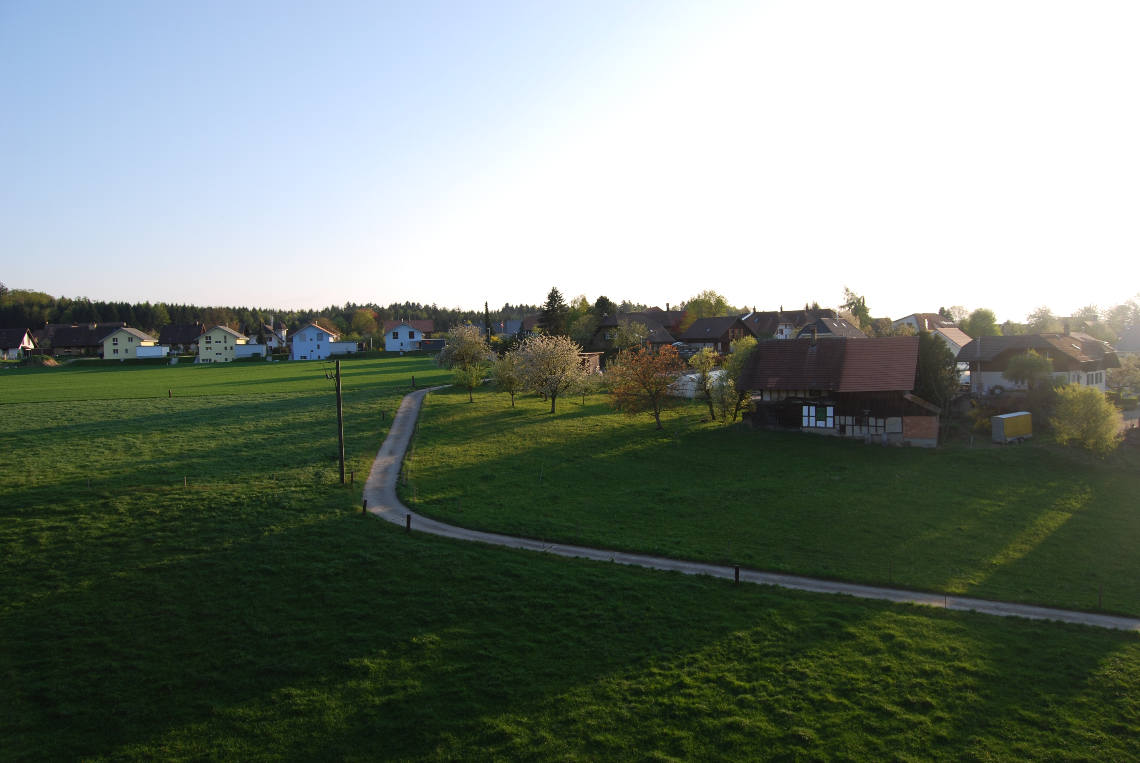 Vogelsang (municipality of Rapperswil, canton of Berne), Switzerland